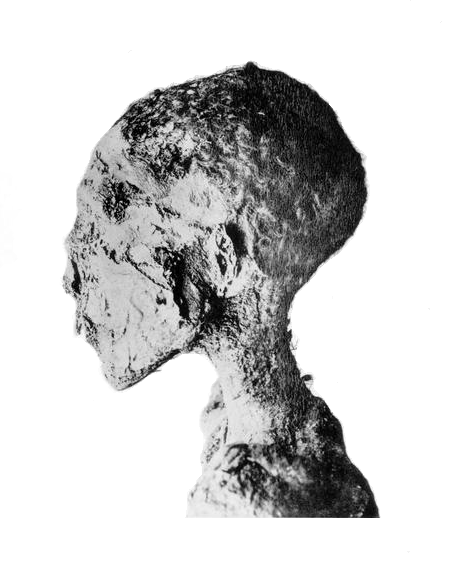 Head of mummy of pharaoh Siptah.